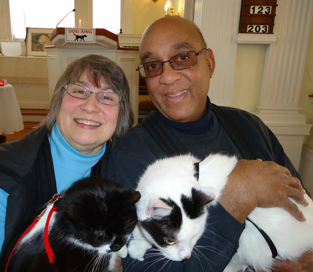 Cat therapy cats -- pictured at the Unitarian Church in Summit NJ -- are taken to hospitals, clinics, and are given temporarily to patients to help them relax. The cats must demonstrate that loud noises or other animals (such as dogs) do not bother them.